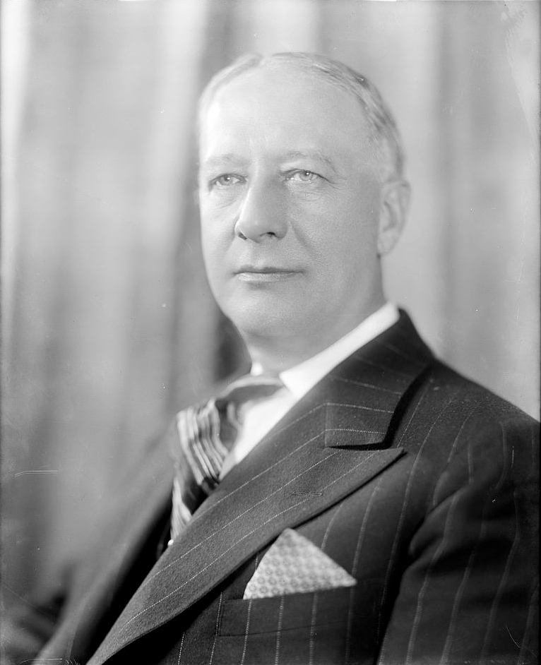 Photograph of Al Smith.